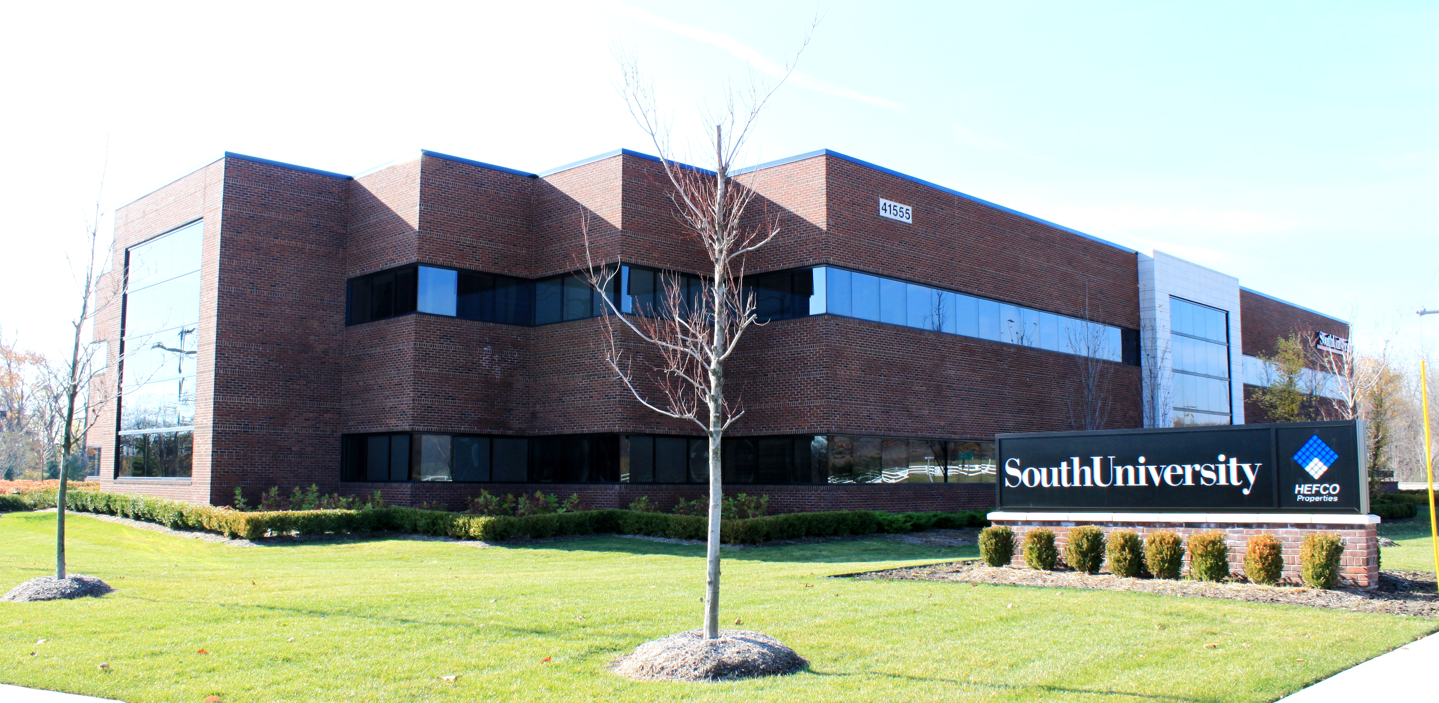 South University Novi Campus, 41555 Twelve Mile Road, Novi, Michigan